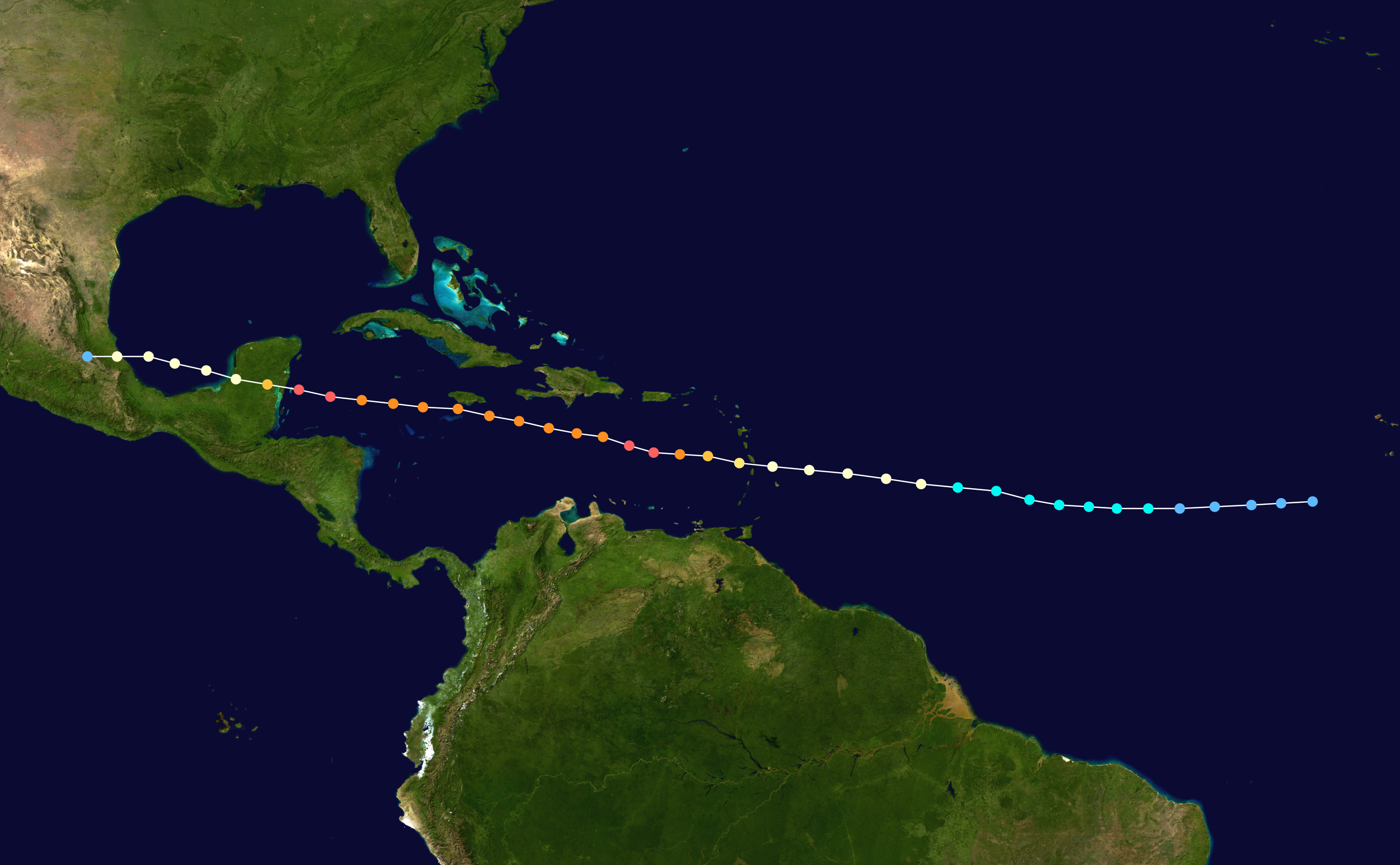 Track map of Hurricane Dean of the 2007 Atlantic hurricane season. The points show the location of the storm at 6-hour intervals. The colour represents the storm's maximum sustained wind speeds as classified in the Saffir–Simpson scale (see below), and the shape of the data points represent the nature of the storm, according to the legend below. Saffir–Simpson scale Tropical depression≤38 mph≤62 km/h Category 3111–129 mph178–208 km/h Tropical storm39–73 mph63–118 km/h Category 4130–156 mph209–251 km/h Category 174–95 mph119–153 km/h Category 5≥157 mph≥252 km/h Category 296–110 mph154–177 km/h Unknown Storm type Tropical cyclone Subtropical cyclone Extratropical cyclone / Remnant low / Tropical disturbance / Monsoon depression